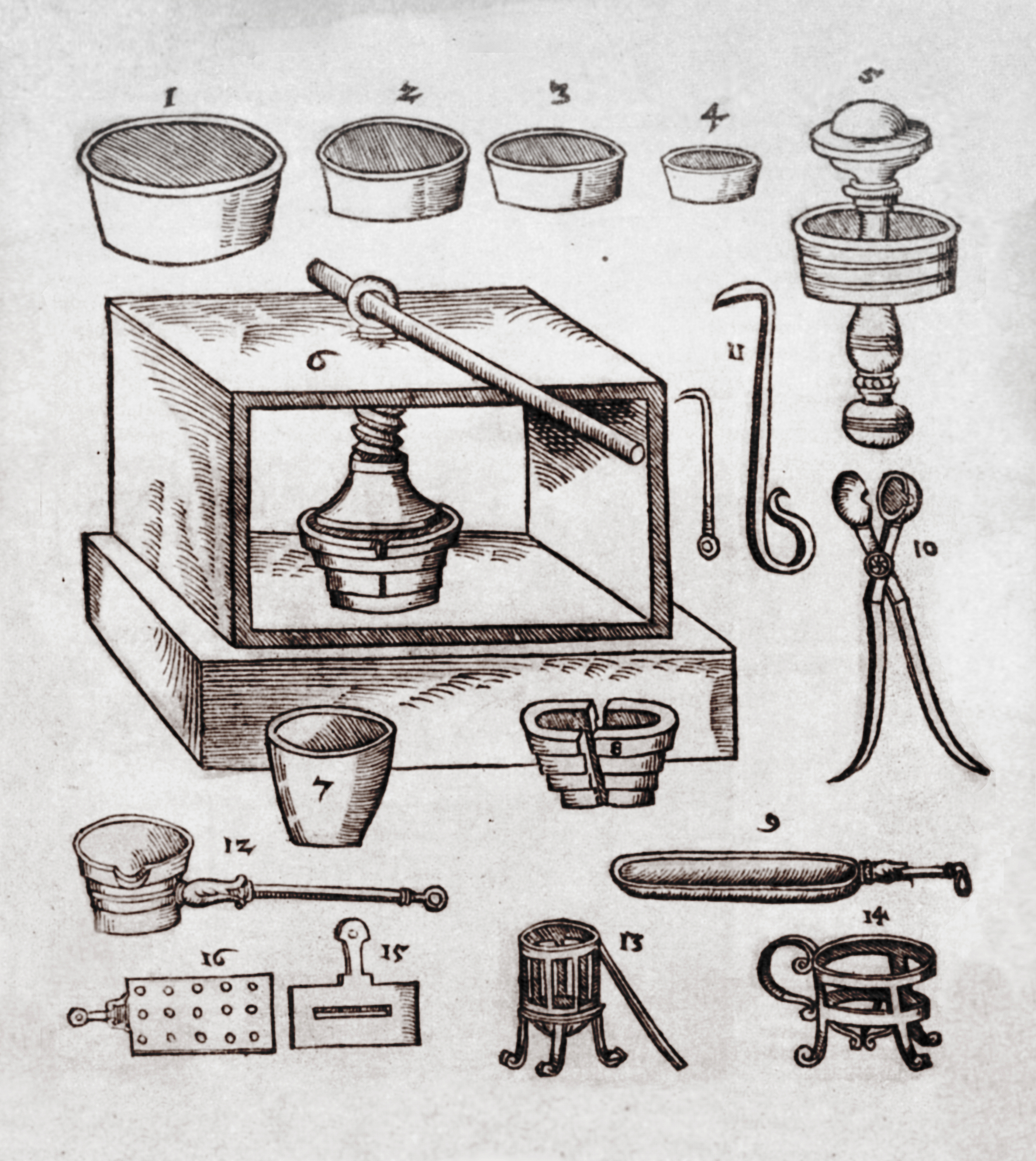 Table «Assay instruments» from «Alchemy» of A. Libavius. 1606